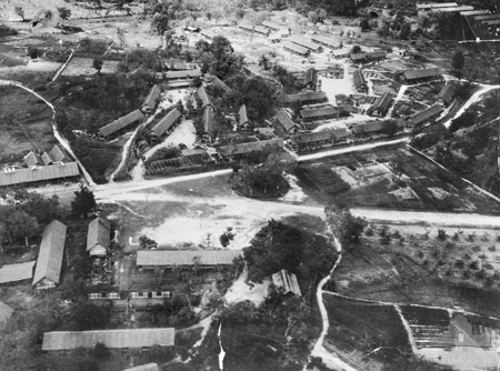 Aerial view of part of Batu Lintang POW camp, Sarawak, Borneo. Photograph taken on or after 29 August 1945 as panel signals L, X and III can be seen on the roof of the long building parallel to the track on the left hand edge of the picture: Wednesday August 29th [1945]. At 10.30 planes dropped pamphlets, obviously intended for us ... It transpires that the pamphlet is addressed to the Japanese area commander, and is written in English and Japanese. The main points are as follows: 1 The war is over 2 Japanese requested to establish contact with AIF by sending a deputation to meet a party of officers landing at the river mouth by Catalina. Time: 11am. Choice of dates: August 30th or September 1st or a later date. 3 Can Japanese get in touch with AIF by radio? 4 Will Japanese allow supplies to be dropped for POW? 5 Patrols will fly over and observe Japanese answers to above, to be given by following code signs: L = Drop supplies X = Cannot get in touch by radio I = Will meet you on August 30th II = Will meet you on the 1st September III = Will meet you on a later date In great haste the Japs laid down the L X III code signs. We were disappointed to see III instead of I 6 The Japanese were told to extend the drome to 3000 metres. At 3pm a couple of Beaufighters over to observe the code signs displayed. (Bell, Frank (1991): Undercover University, 115-6). Drops of supplies commenced the next day.